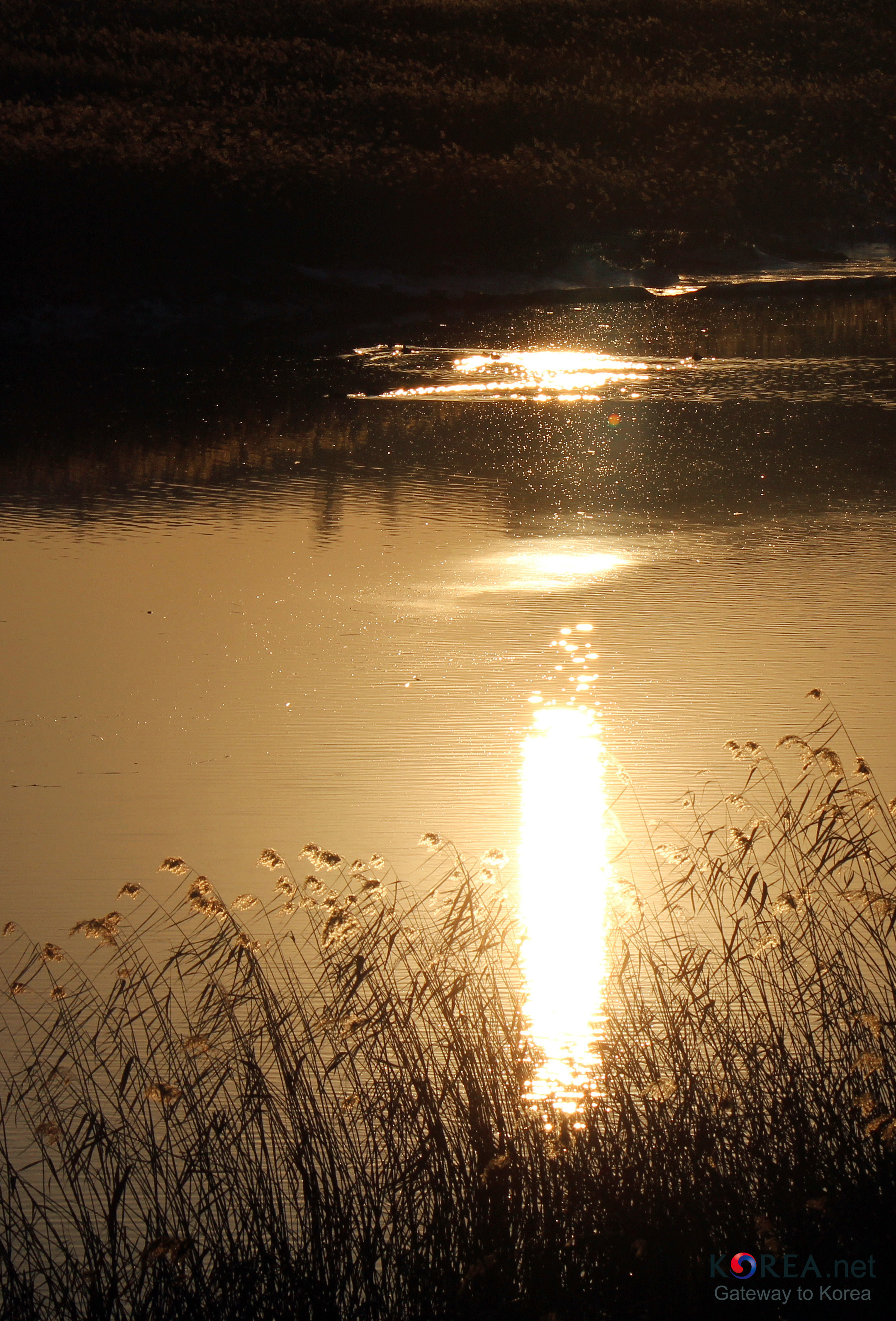 Shihwa Lake December 15, 2013. Shihwa Lake, Ansan-si, Gyeonggi-do Ministry of Culture, Sports and Tourism Korean Culture and Information Service ( Wi Tack-whan 시화호 갈대습지공원 2013-12-15 경기도 안산시 시화호 문화체육관광부 해외문화홍보원 코리아넷 위택환